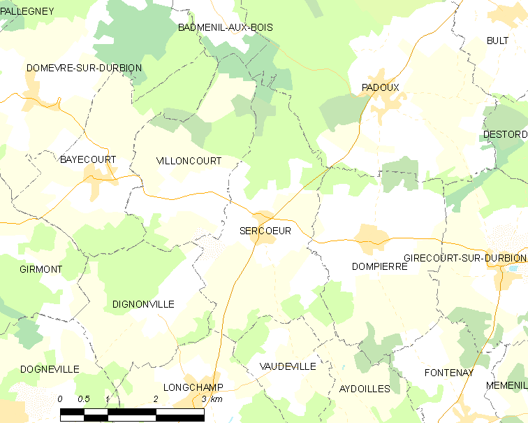 Map of French municipality Sercœur